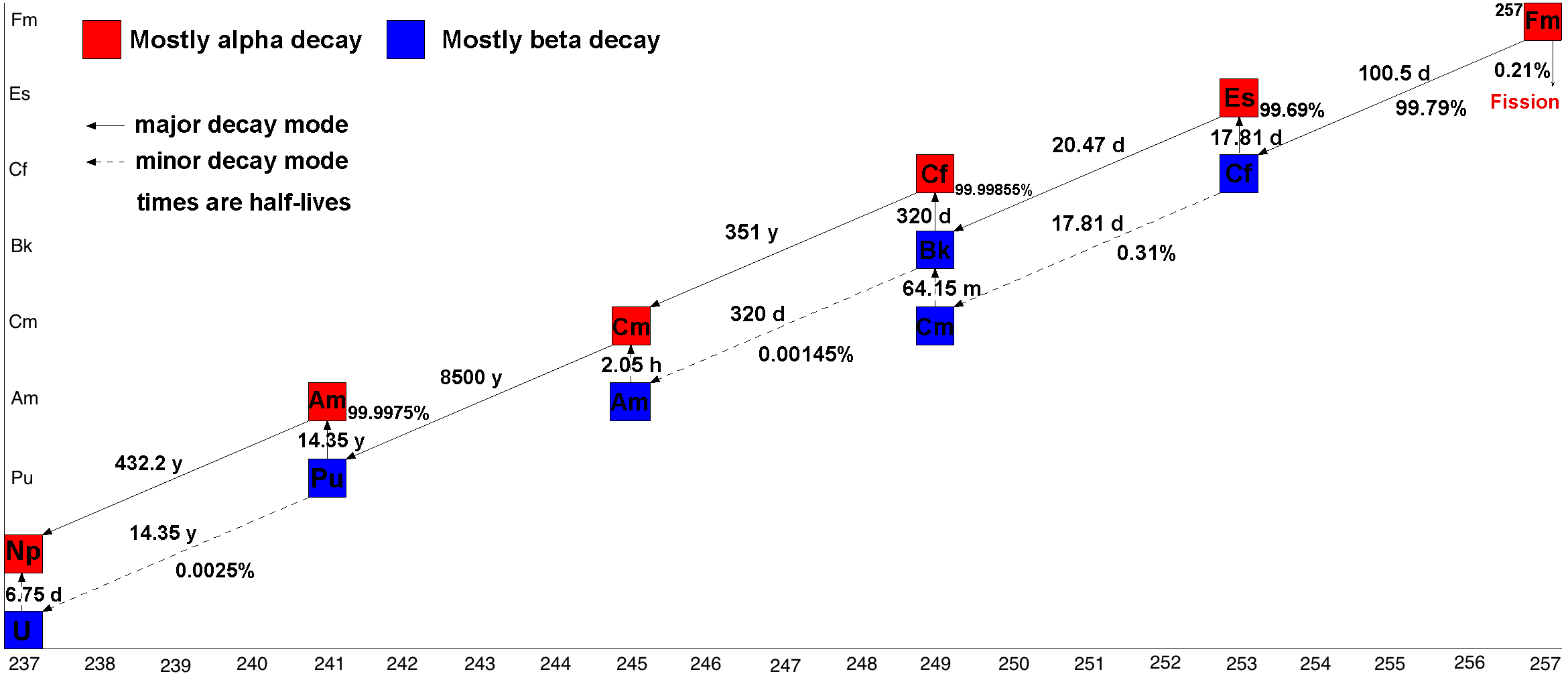 The decay of fermium-257 to the neptunium series (neptunium-237).